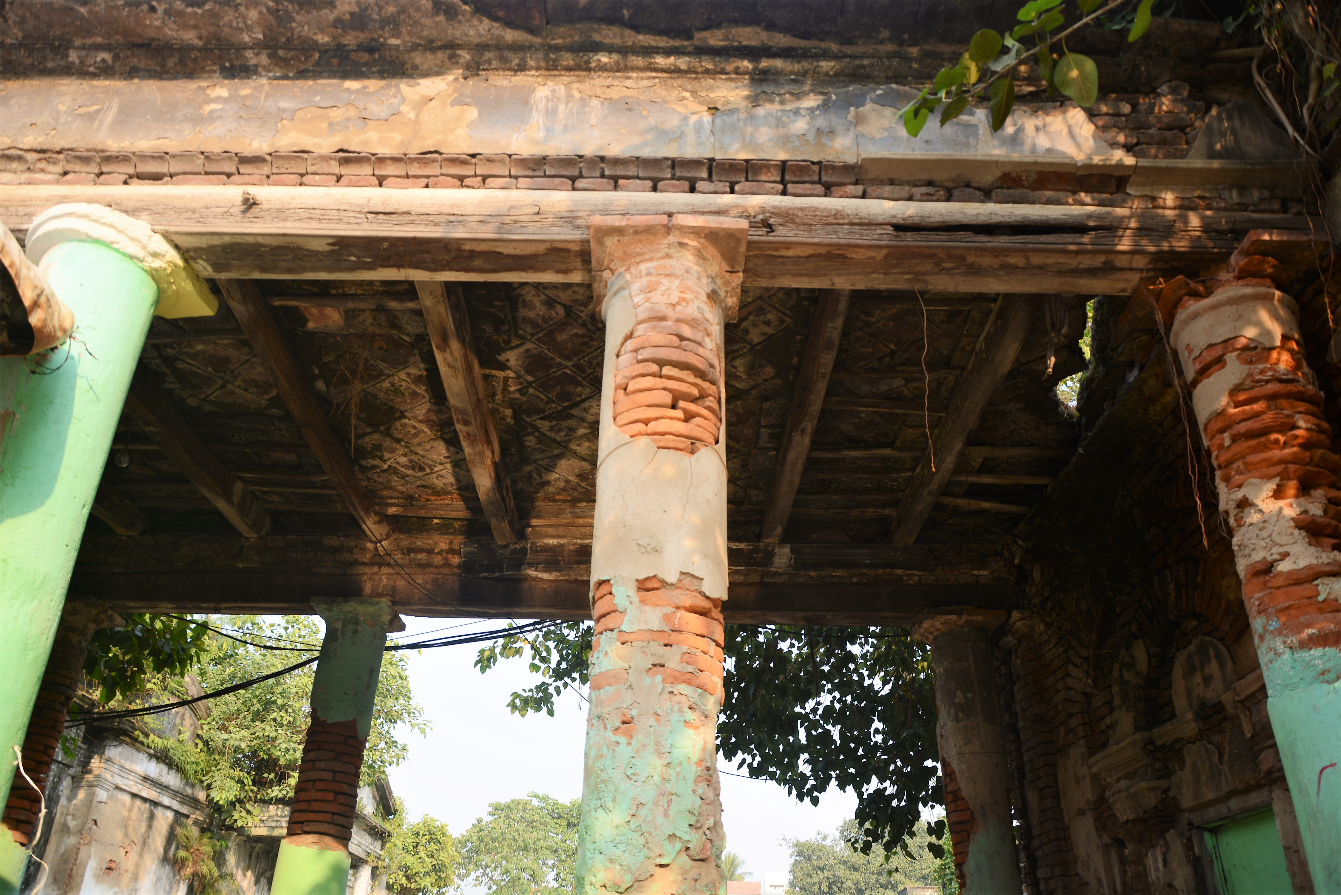 The ghat of Choto Rasbari beside Adi Ganga.